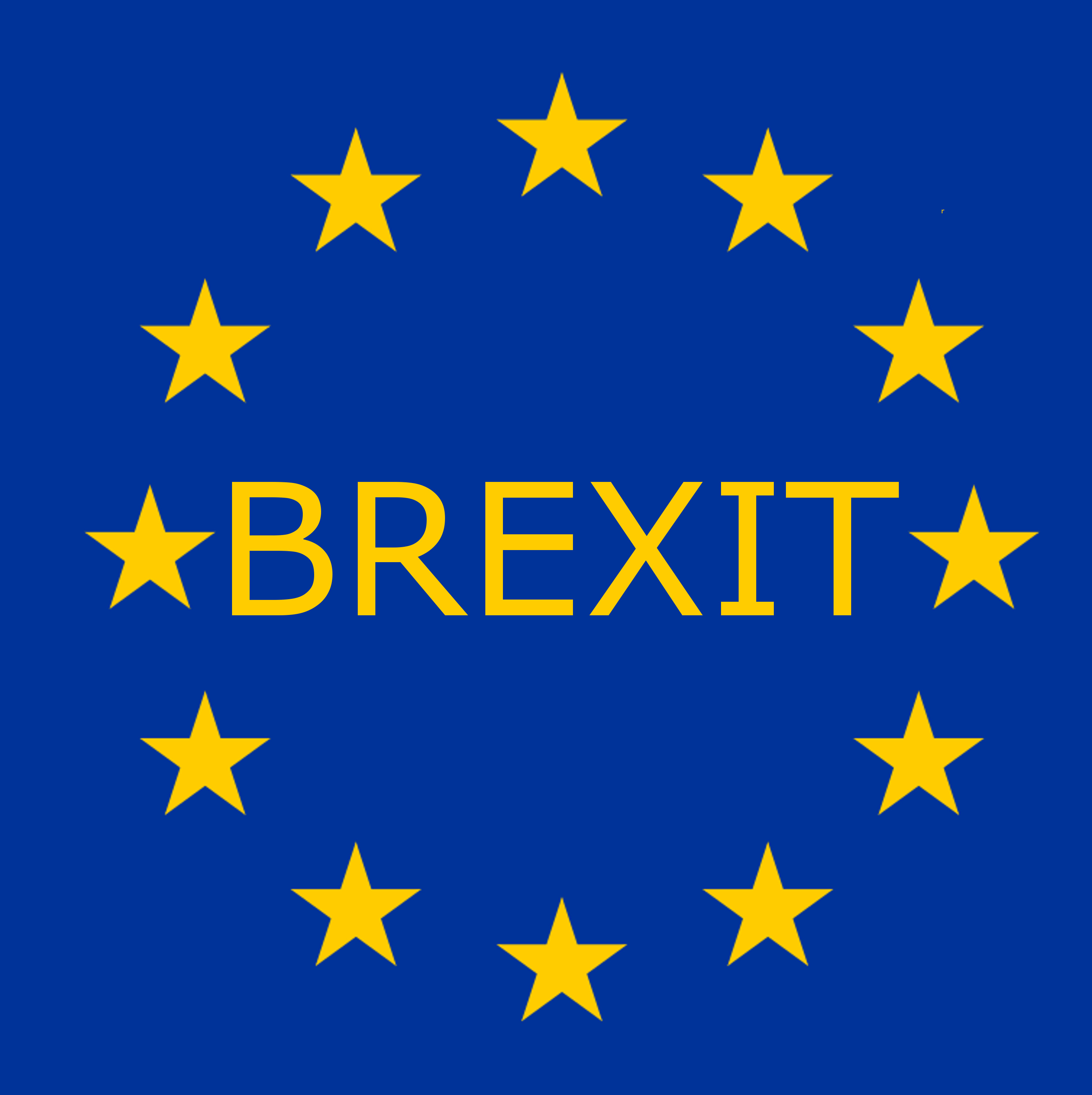 The United Kingdom leaves the EU and Brexit.